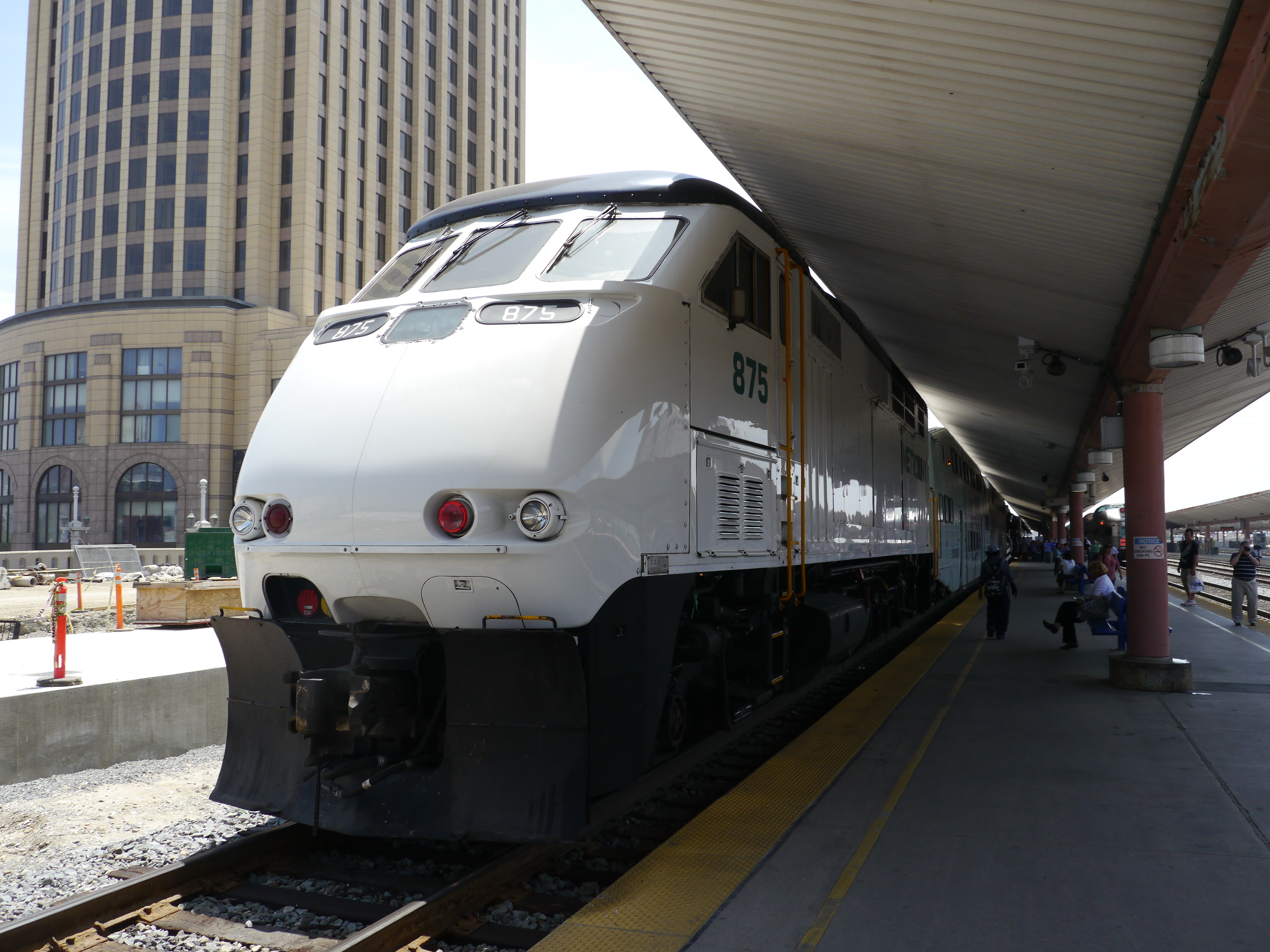 Number 875, National Train Day, Los Angeles Union Station.